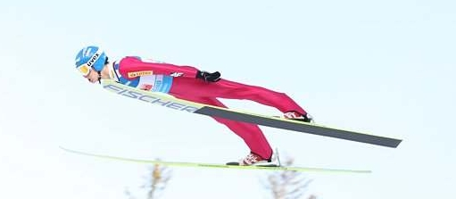 Maciej Kot during team competition of FIS Ski-Flying World Championships 2012